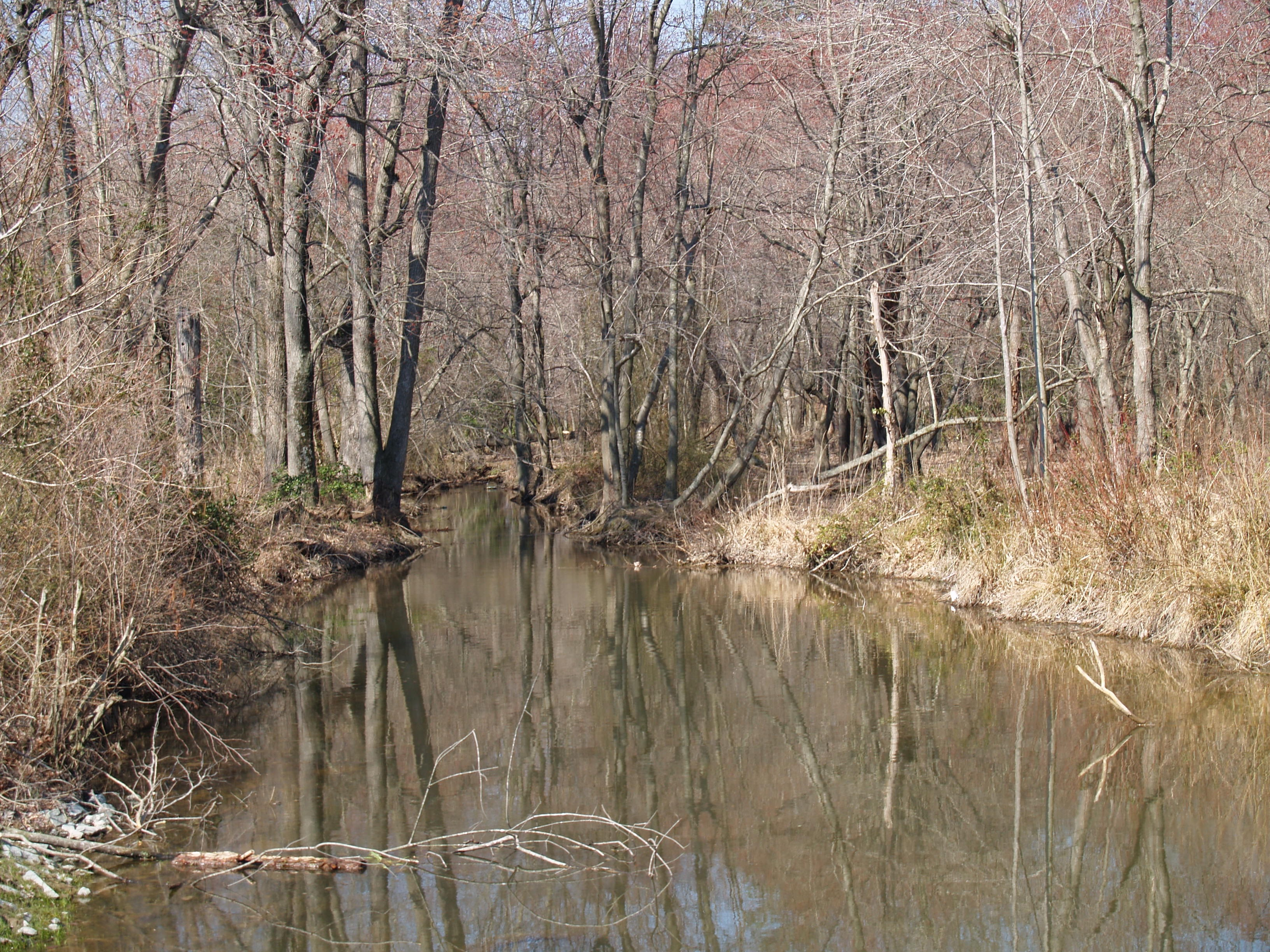 Houston Branch of Marshyhope Creek looking downstream towards the Delaware Stateline from Handy Road. Image was taken in 2008.